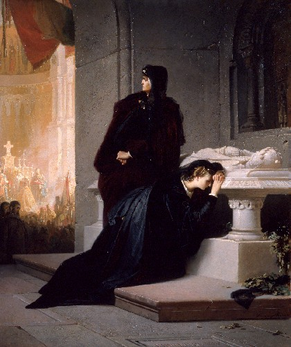 Dowager Queen Elizabeth and Queen Mary of Hungary mourning at the tomb of the former's husband and latter's father, King Louis I of Hungary and Poland.